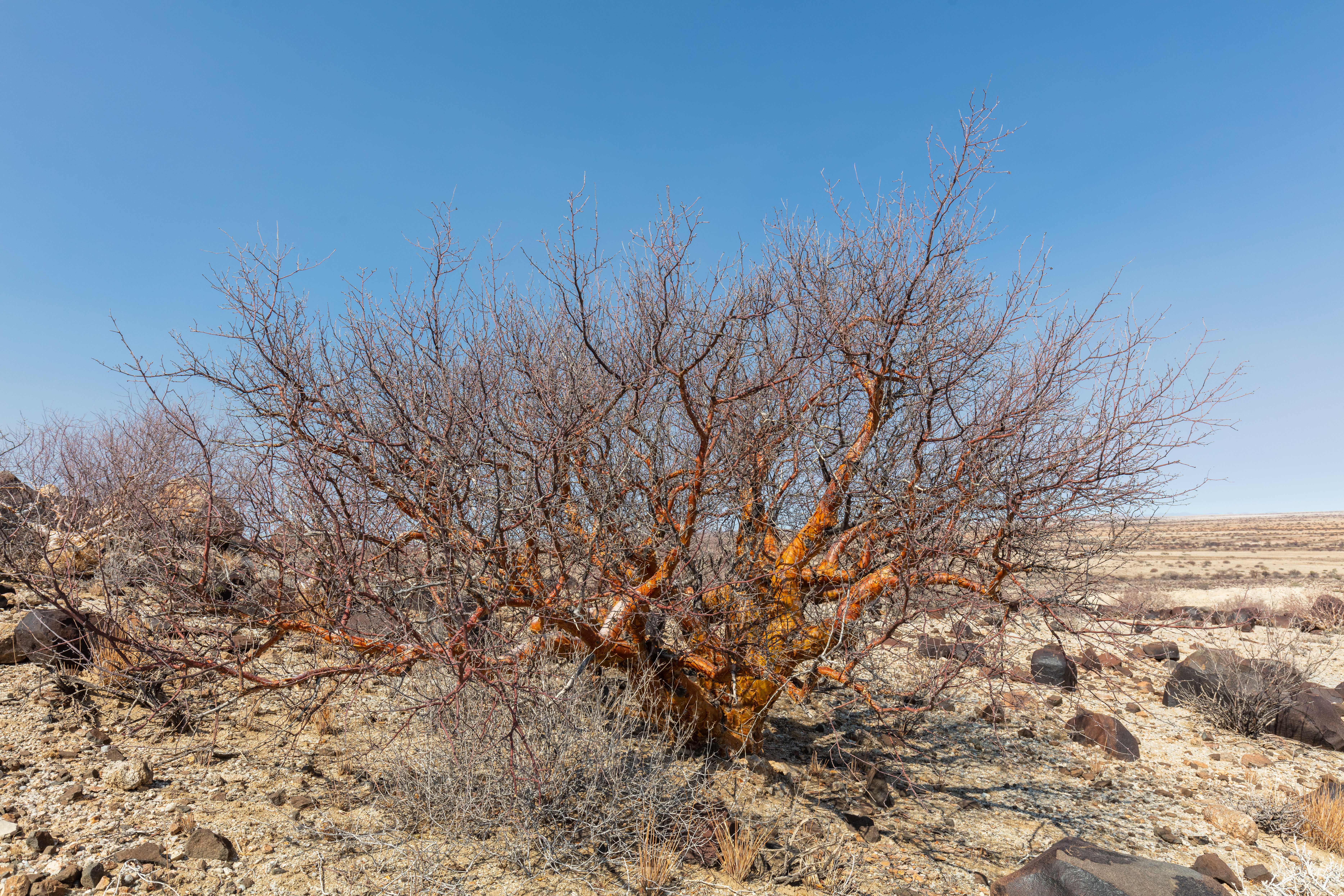 Spitzkoppe, Namibia